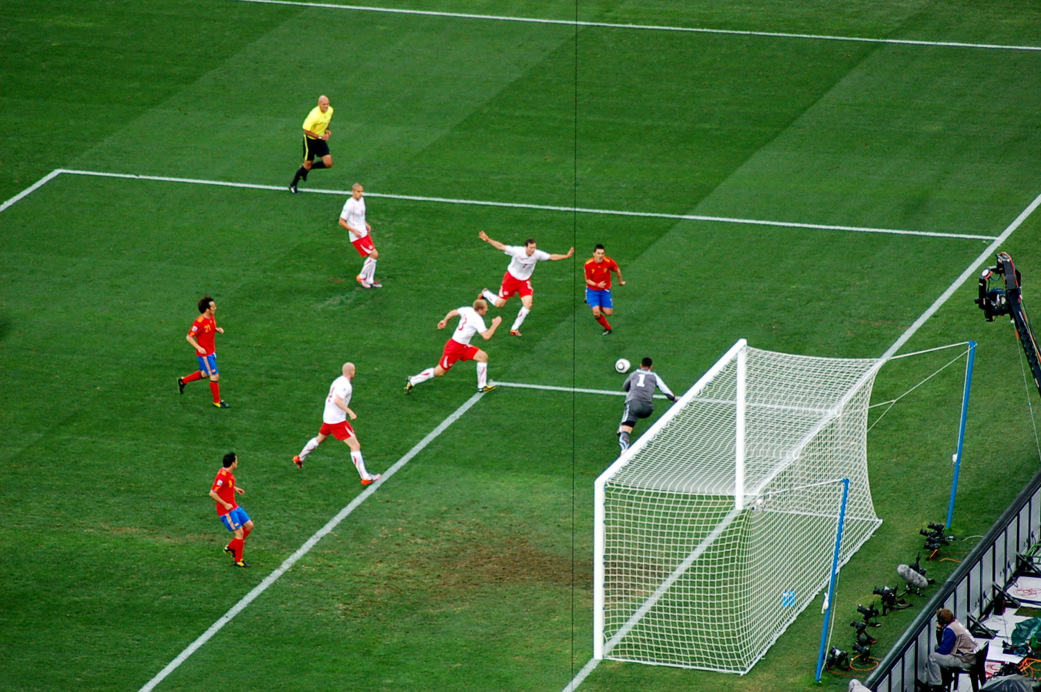 Spain attacks during the game between Spain and Switzerland at FIFA World Cup 2010, 15 June 2010, Moses Mabhida Stadium, Durban